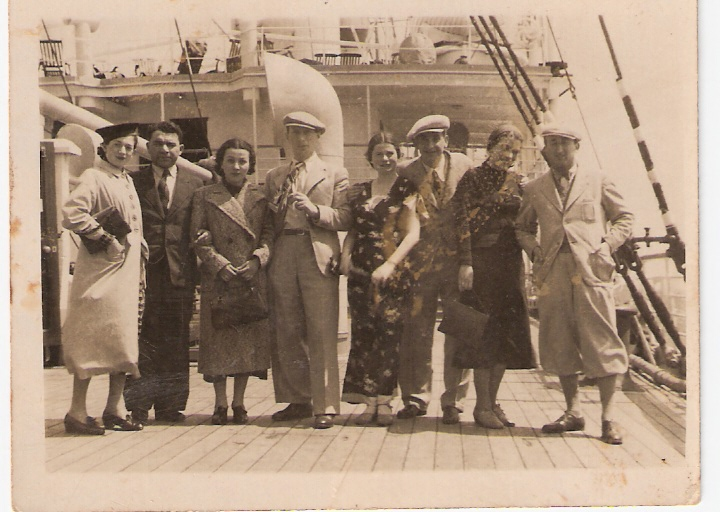 immigrants from poland on the ship "polonia\"